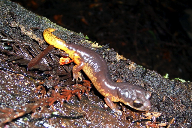 Ensatina eschscholtzii oregonensis from northern California.